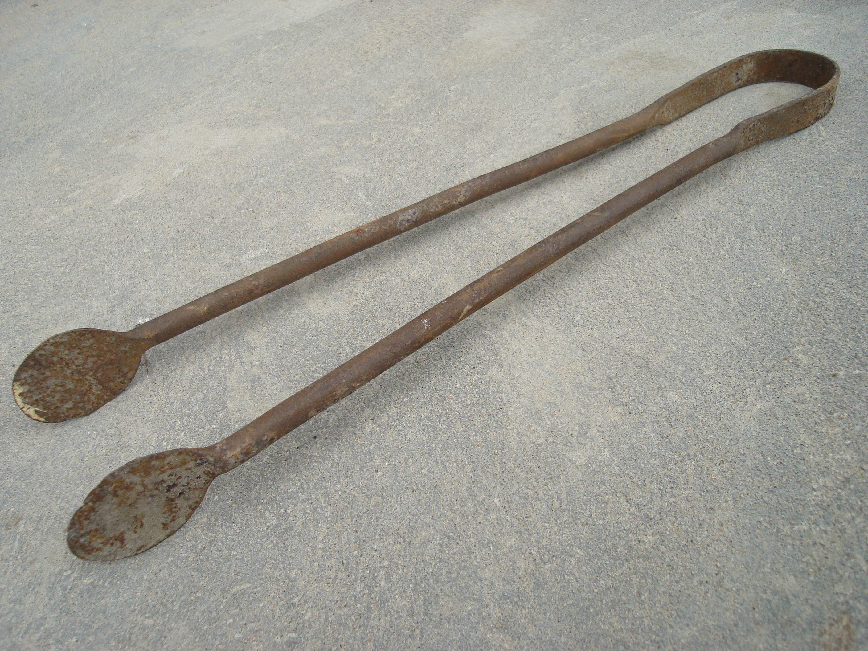 This is very old blacksmith's pliers